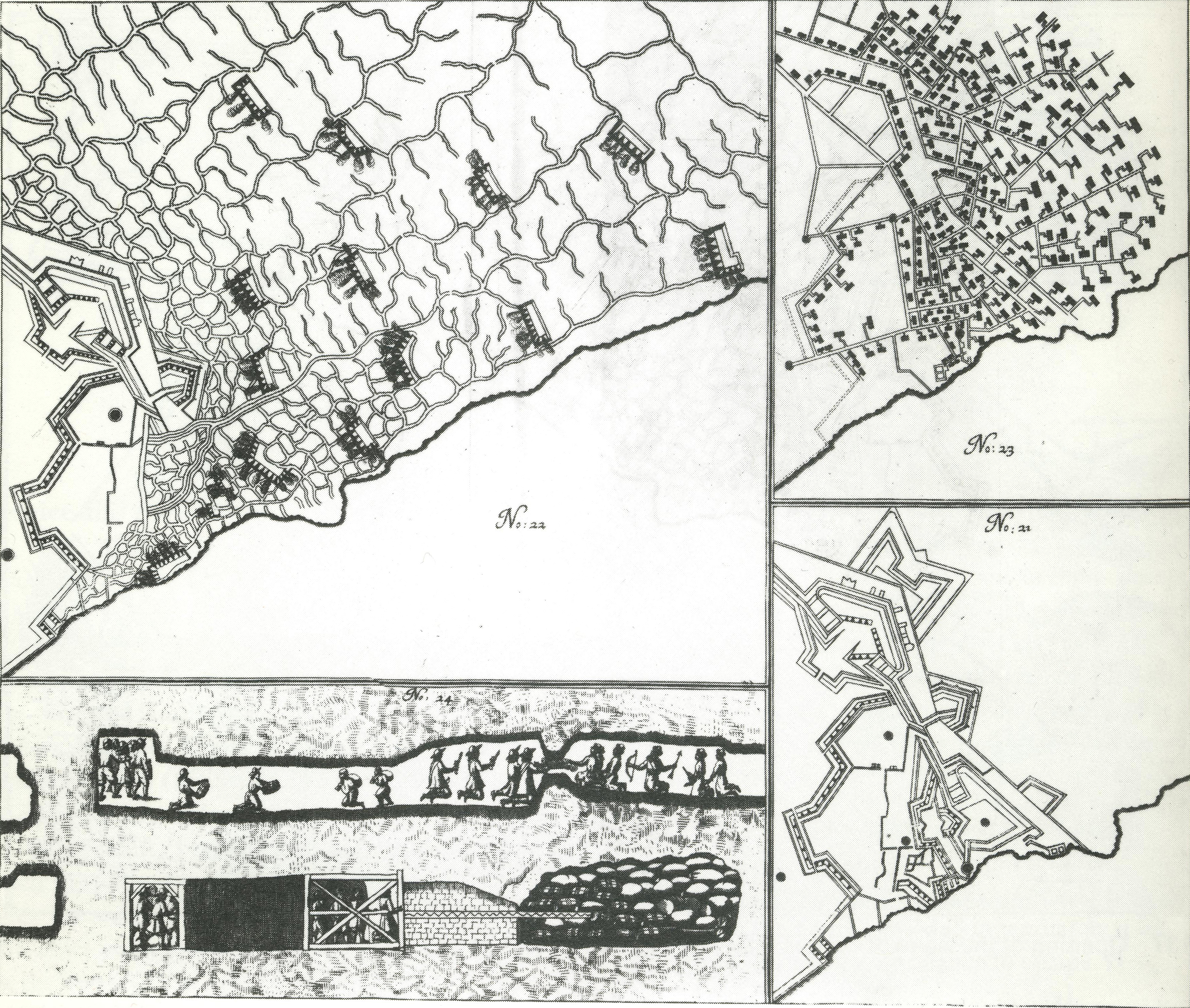 Some illustrations of the Siege of Candia. The detail pictures show the Sant' Andrea and Panigra Bastions of the fortress: No. 22, upper left: Turkish batteries and approaches (the grid-like lines are trenches) No. 23, upper right: Plan of defenders countermines No. 23, lower left: Underground combat, note the stock of gunpowder charges in the lower right corner which will blow up the mine No 21, lower right: Plan of the bastions